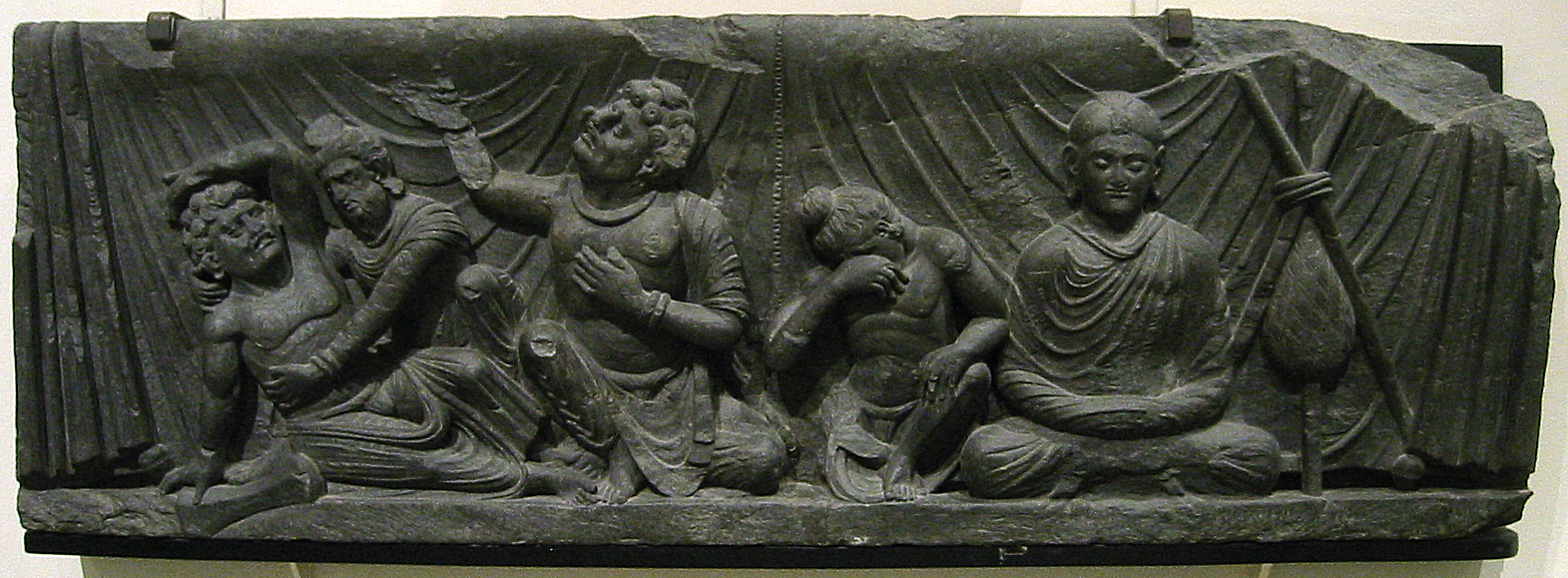 Attendants to the Mahaparinirvana. Victoria and Albert museum. Personal photograph 2005. Detail of Vajrapani and Kushan devotee